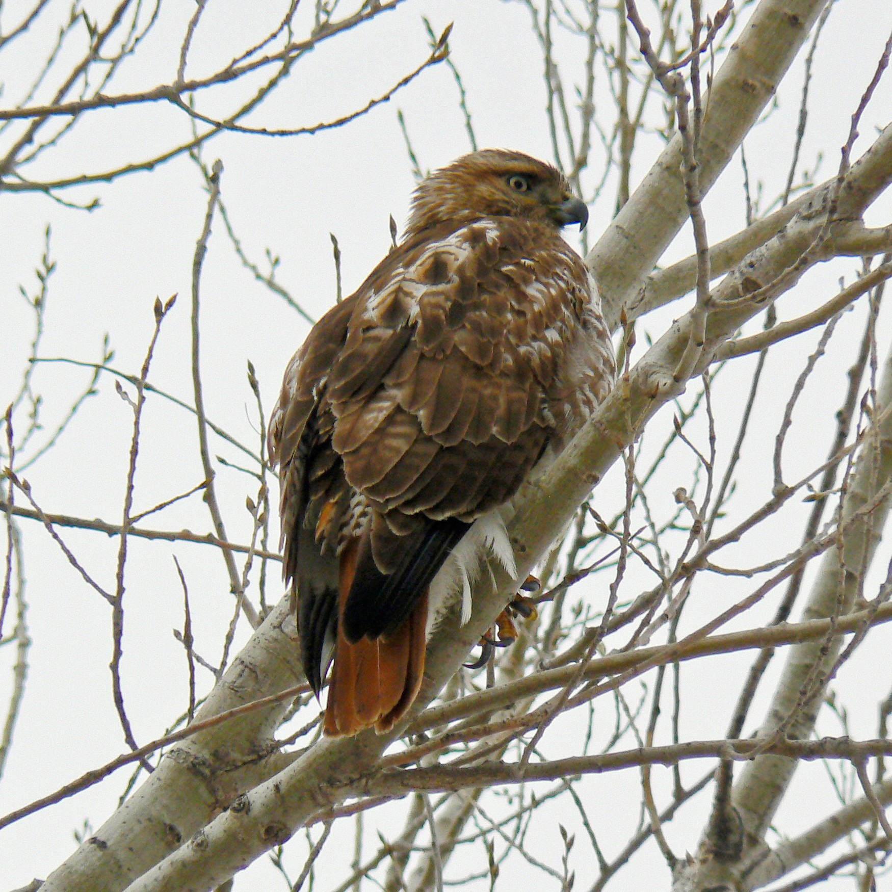 Red-tailed Hawk (Buteo jamaicensis) taken at Chalco Hills Recreation Area, Nebraska